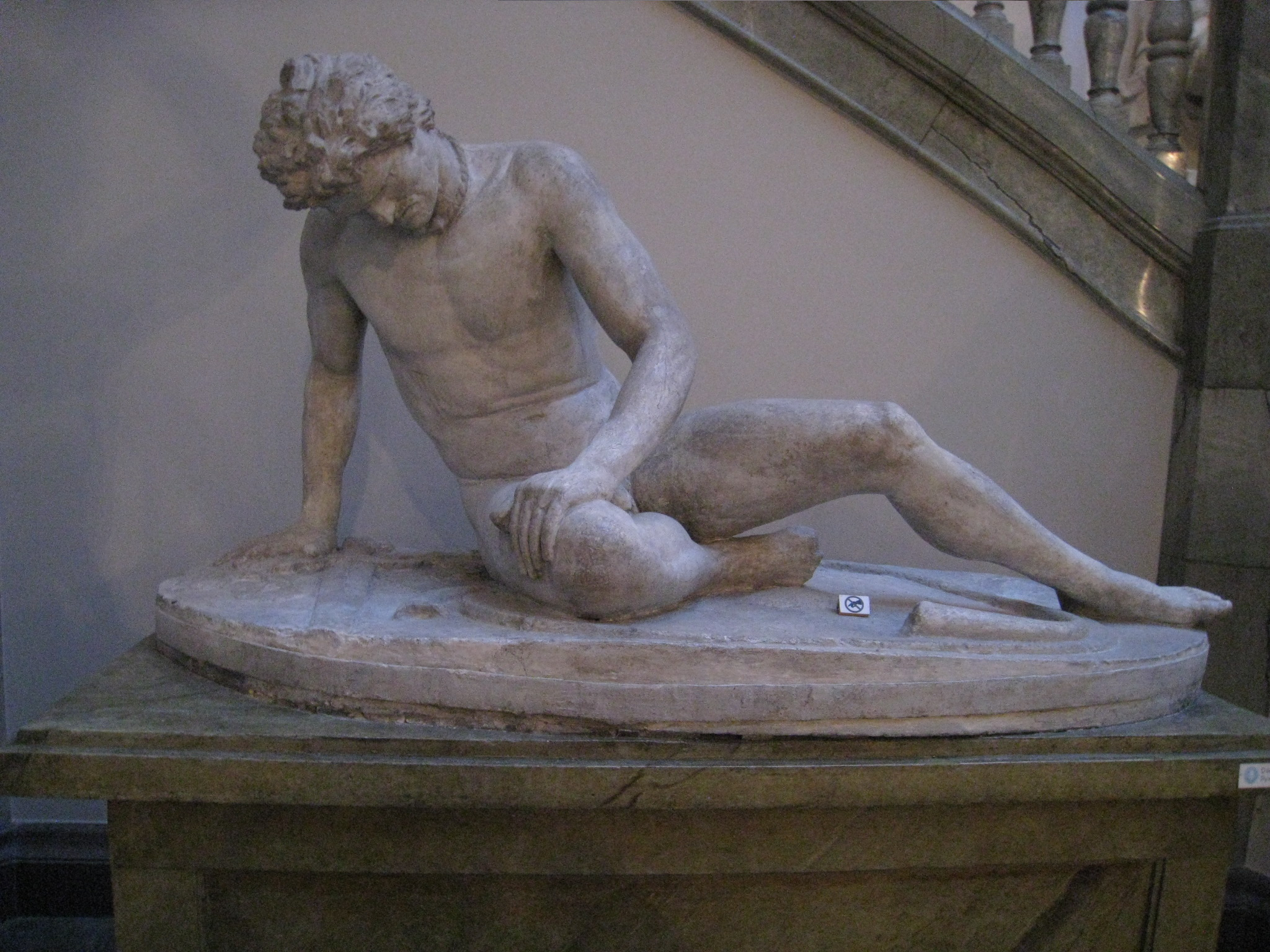 Plaster casts in the Royal Swedish Academy of Arts, Stockholm, Sweden. The Dying Gaul (The Dying Galatian). The Dying Gaul is a Roman marble copy of a Hellenistic bronze sculpture from 200 B.C. The copy was performed in the 100 century A.D.